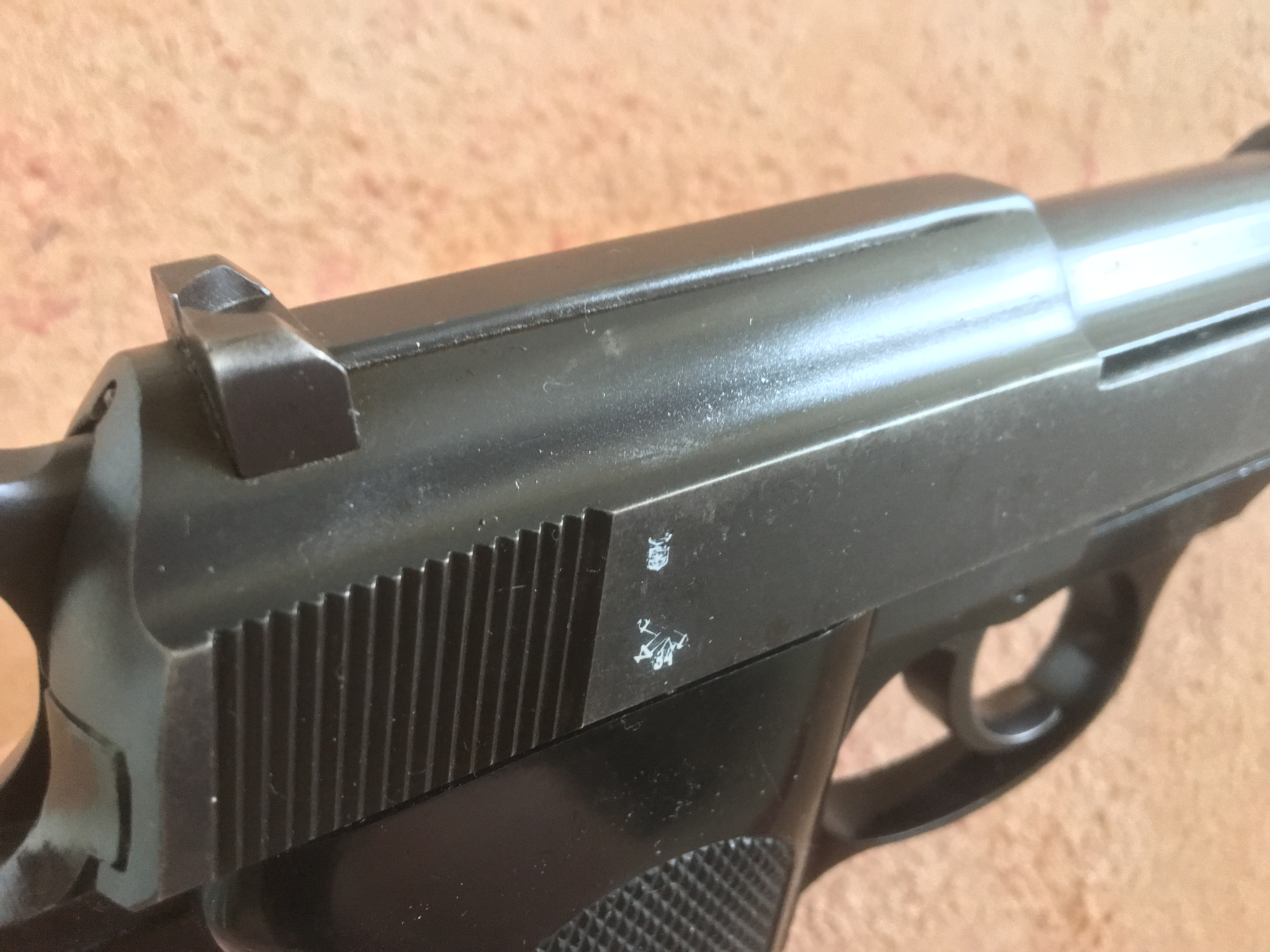 Manurhin p-1 French Proof Marks and top cover detail